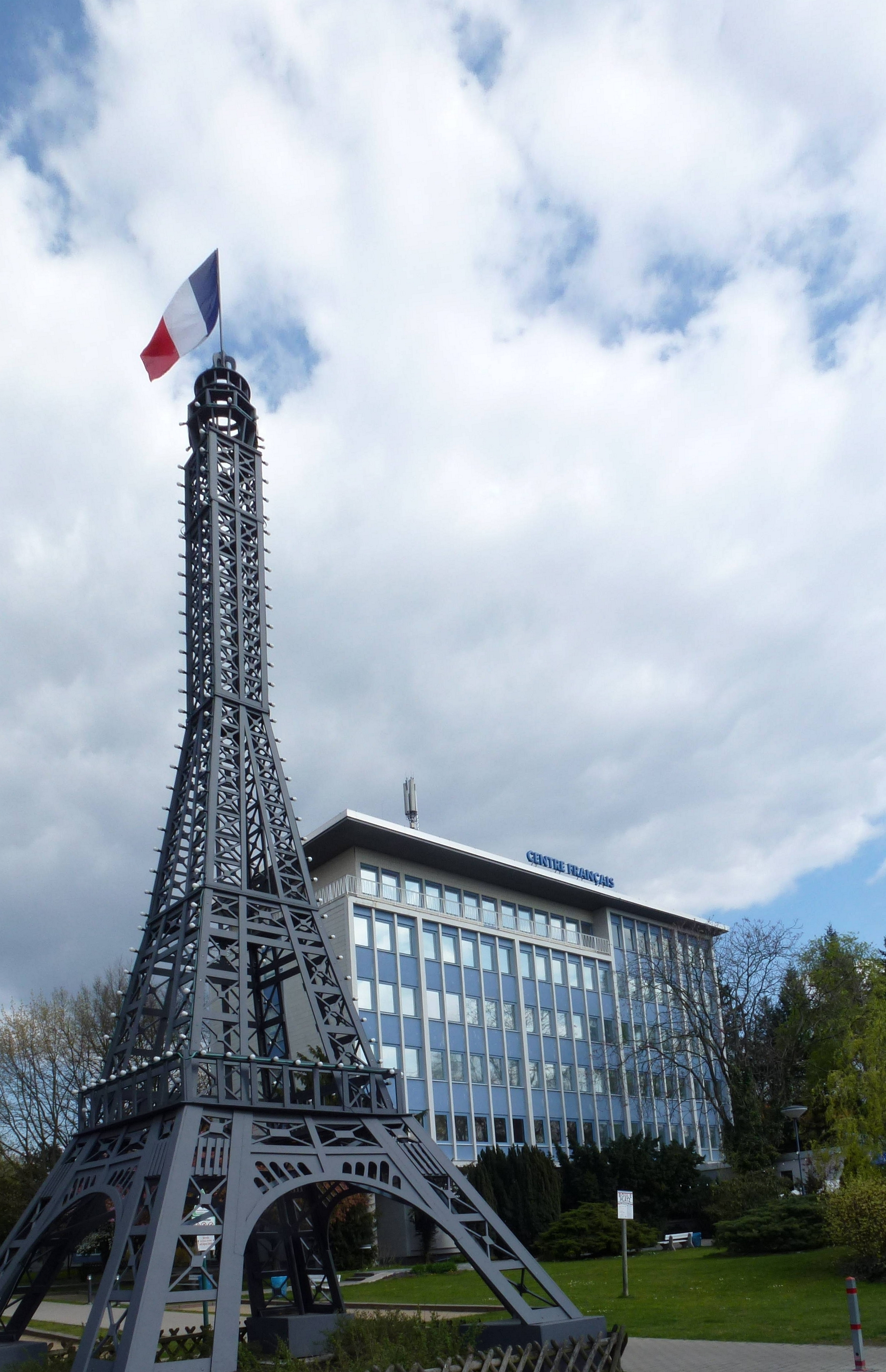 Berlin-Wedding Müllerstraße Centre Francais